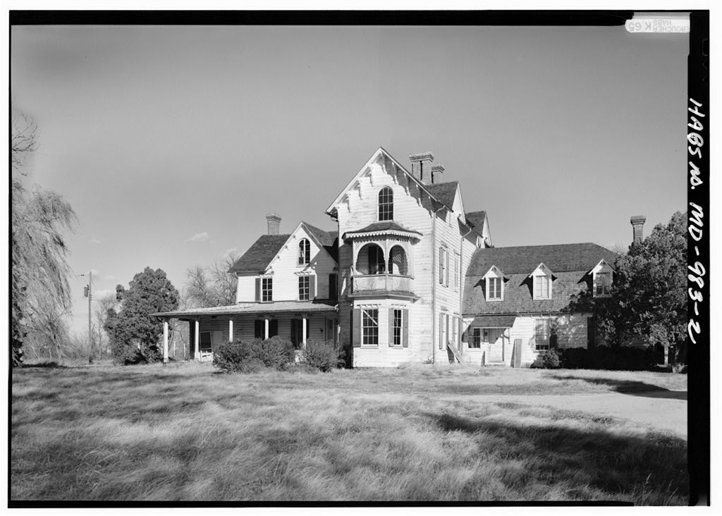 Hazelwood: PERSPECTIVE VIEW OF WEST (FRONT), LOOKING NORTHEAST HABS MD,17-MARBU,12-2